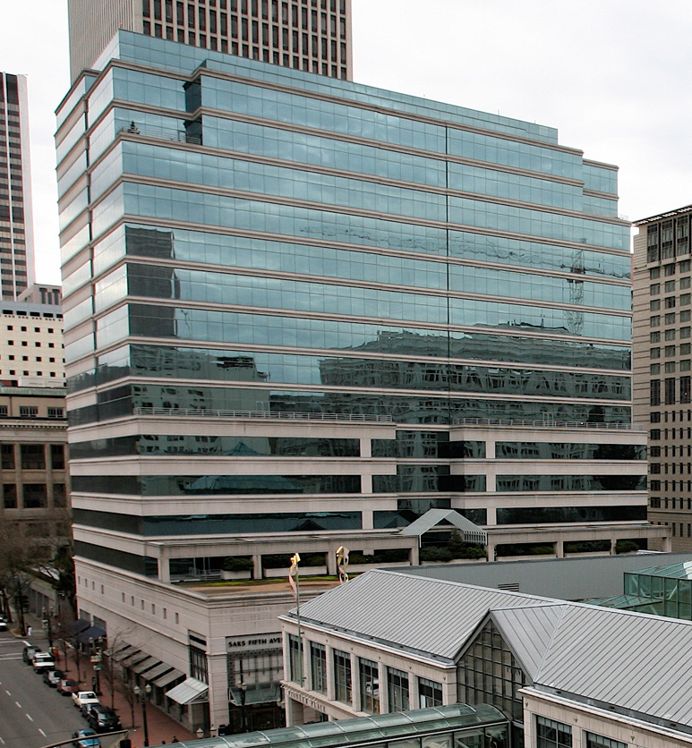 Pioneer Tower (1990) - Portland, Oregon - (March 4, 2007)